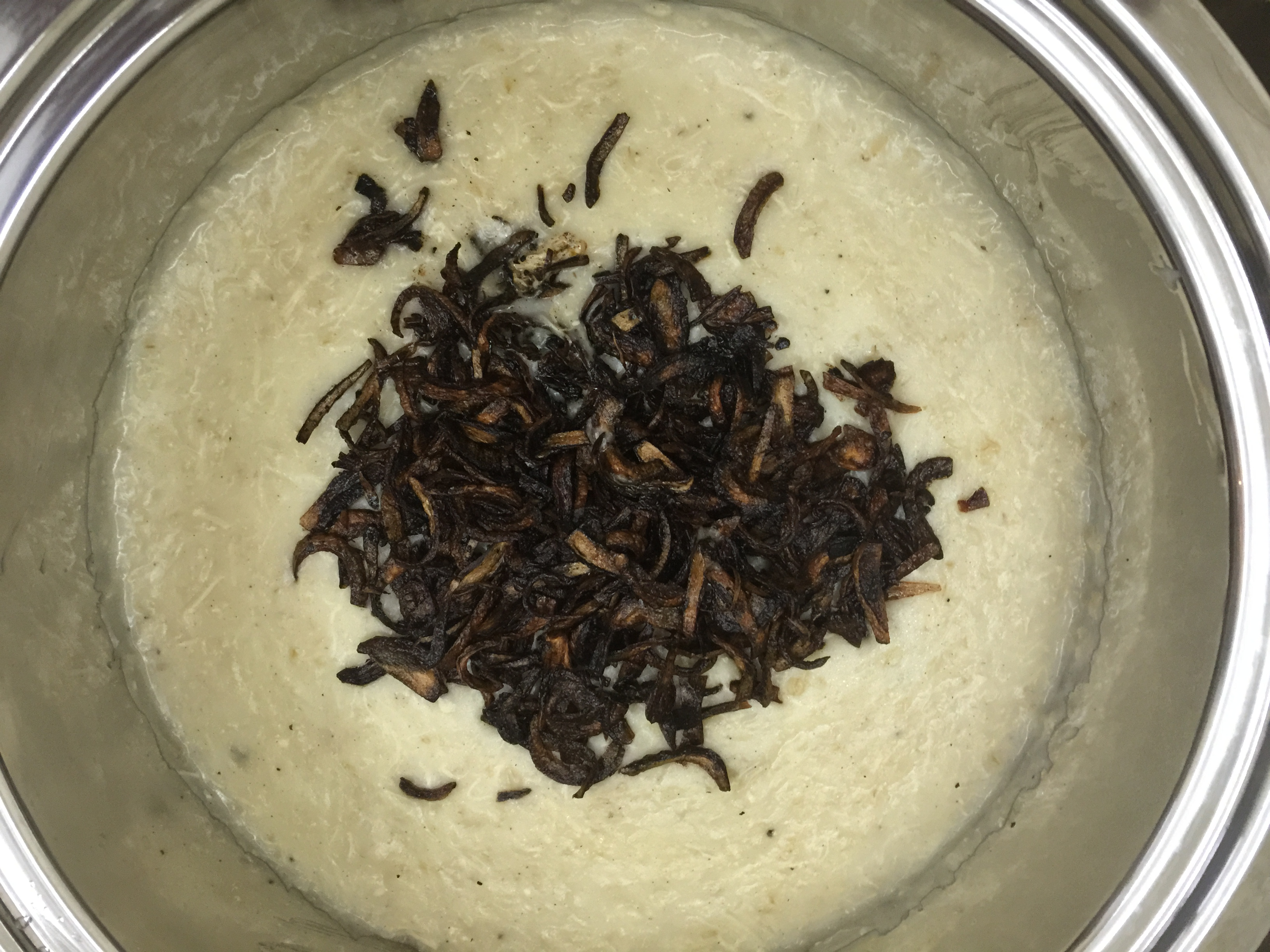 Jarish is a dish from Saudi Arabia Cuisine.